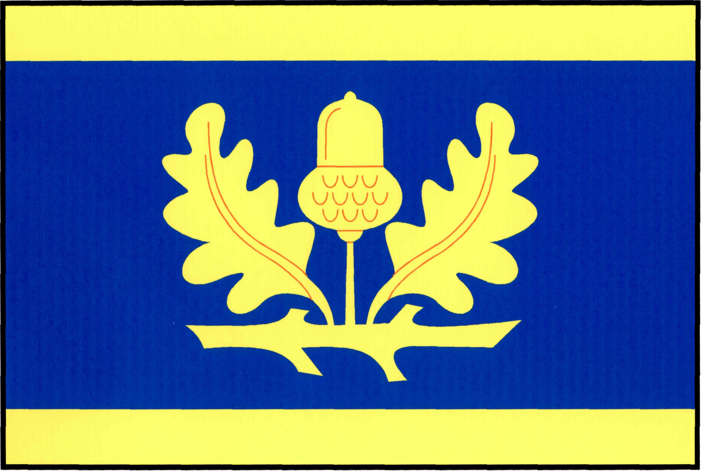 Municipal flag of Snovídky village, Vyškov District, Czech Republic.